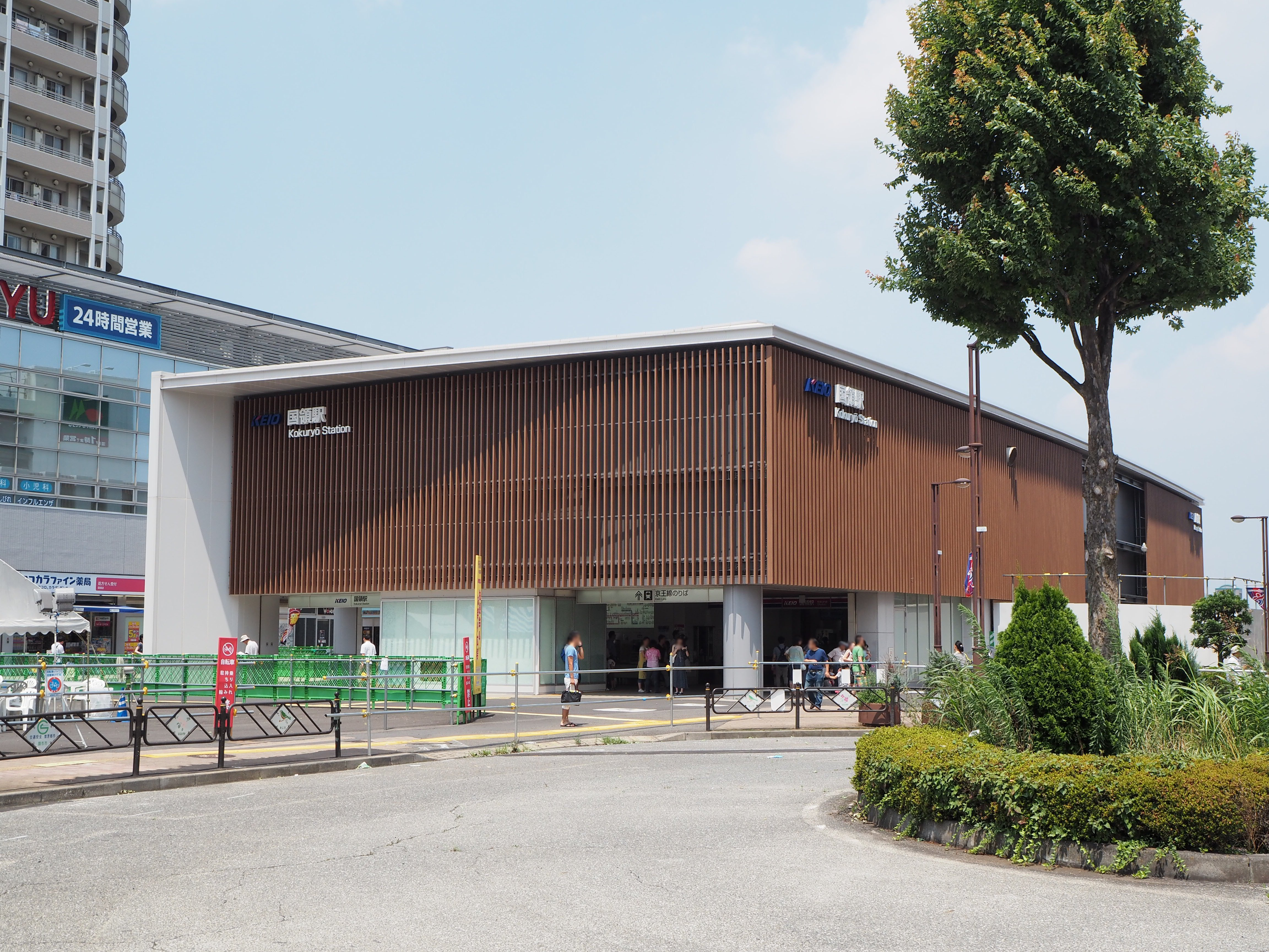 Kokuryō Station